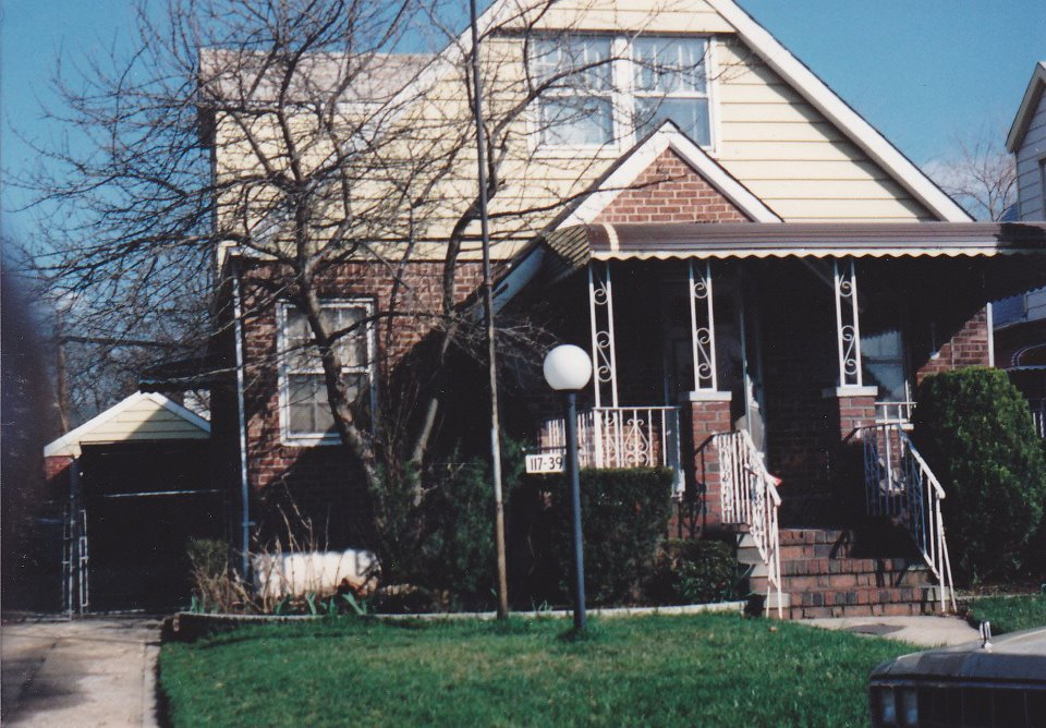 House on 117-39 220th ST. Cambria Heights, Queens, NY. Tony Santiago lived here.